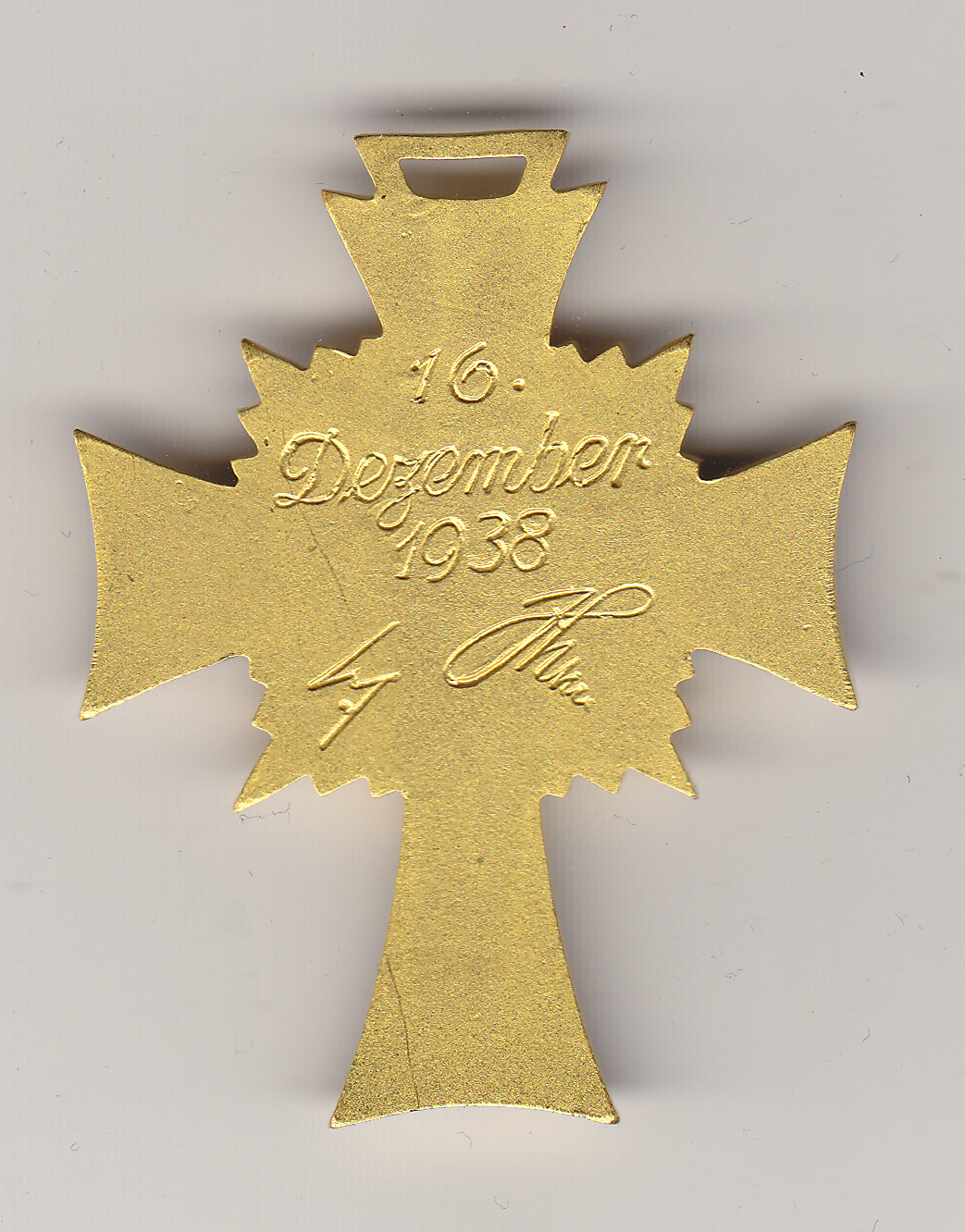 Reverse side of the Cross of Honor of the German Mother. The inscription says "16. Dezember 1938". Also shown are two signatures.